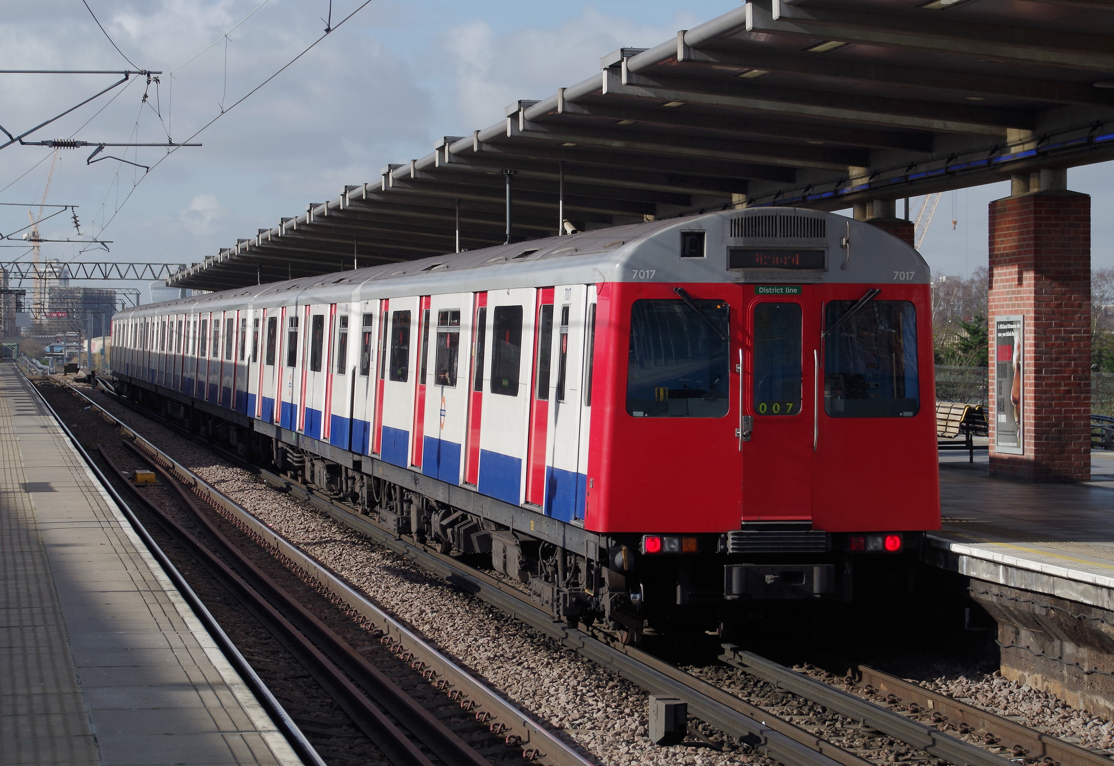 A London Underground District Line D Stock train departs West Ham with a westbound service.